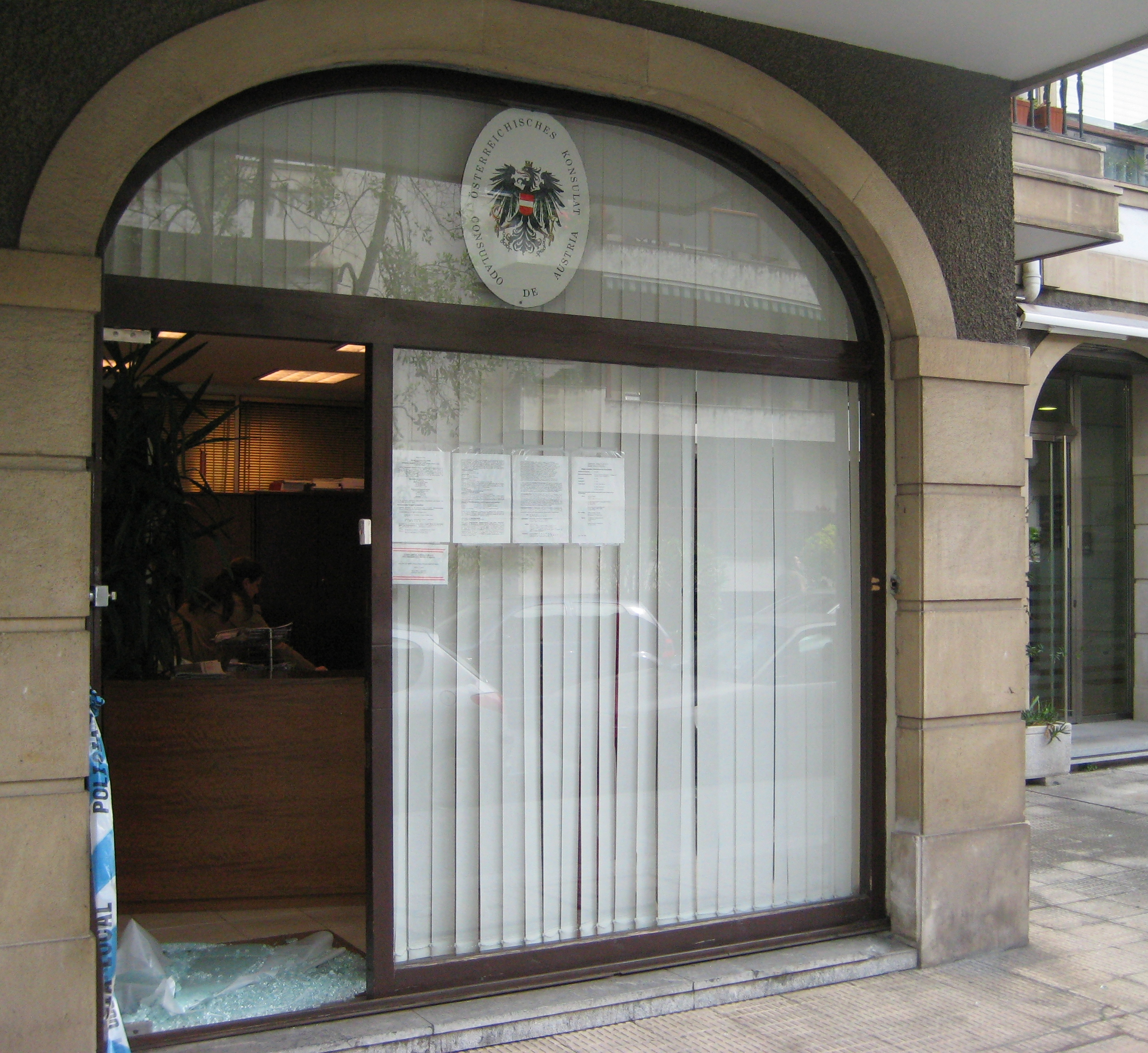 Austrian Consulate at Club Street, Las Arenas, Getxo, the morning after the explosion of bomb by ETA at the end of the street.